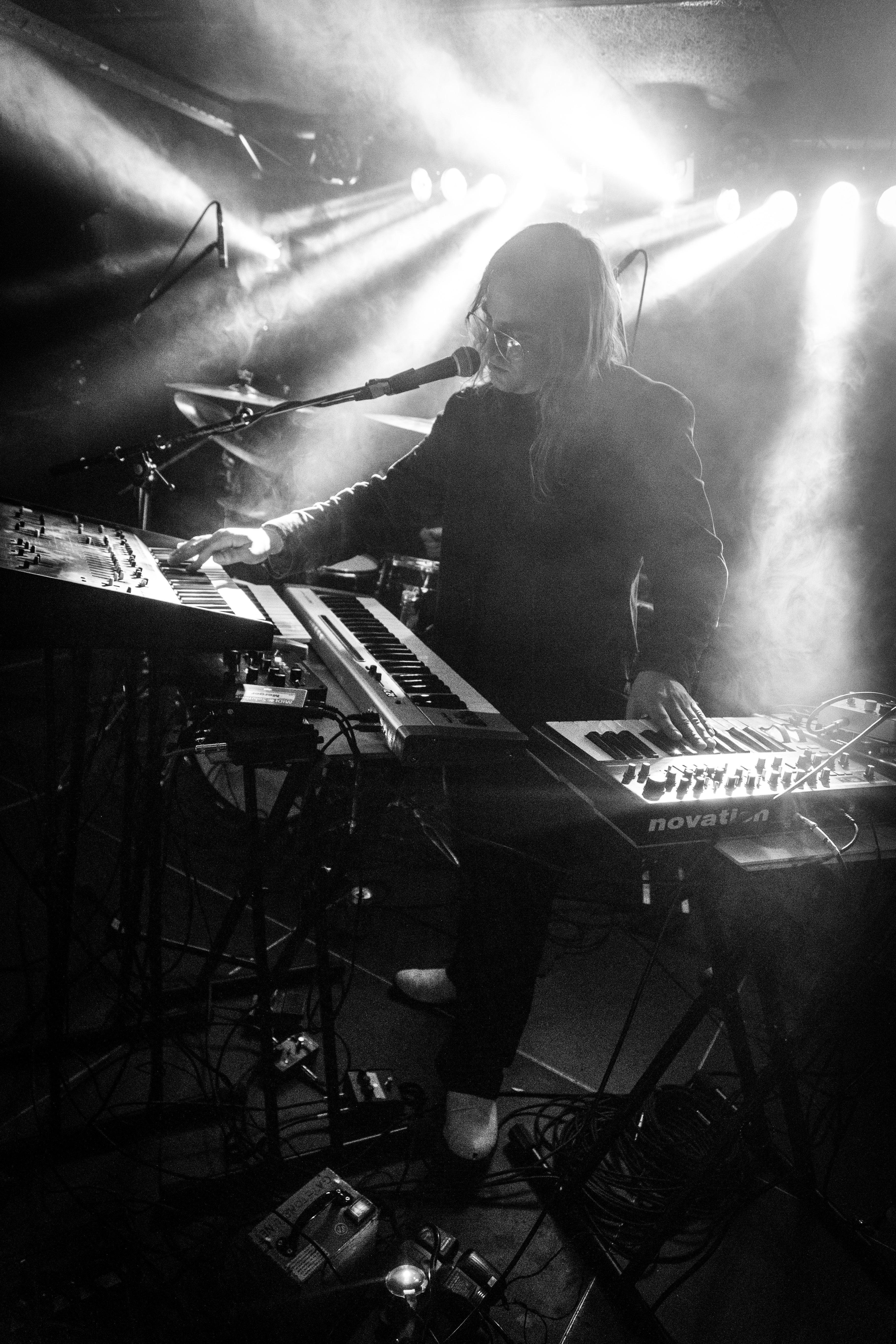 Pinkish Black live at Roadburn Festival, Tilburg, April 2017